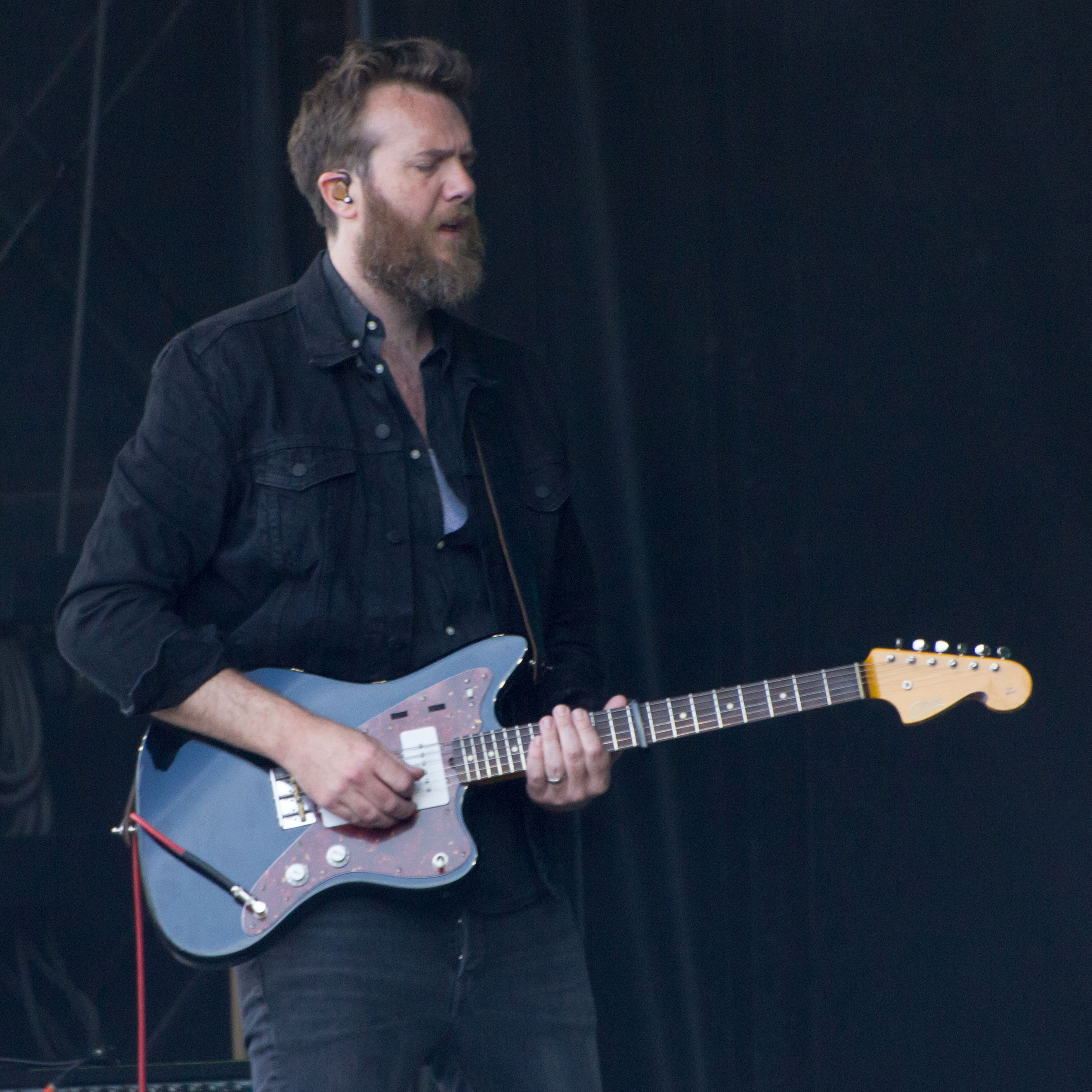 John Mark McMillan performing at Big Church Day Out (BCDO) at Wiston House, West Sussex, UK in May 2019.